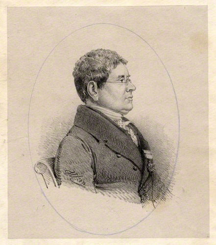 Portrait of Sir Henry Ellis, (1777–1869), English librarian and antiquarian.